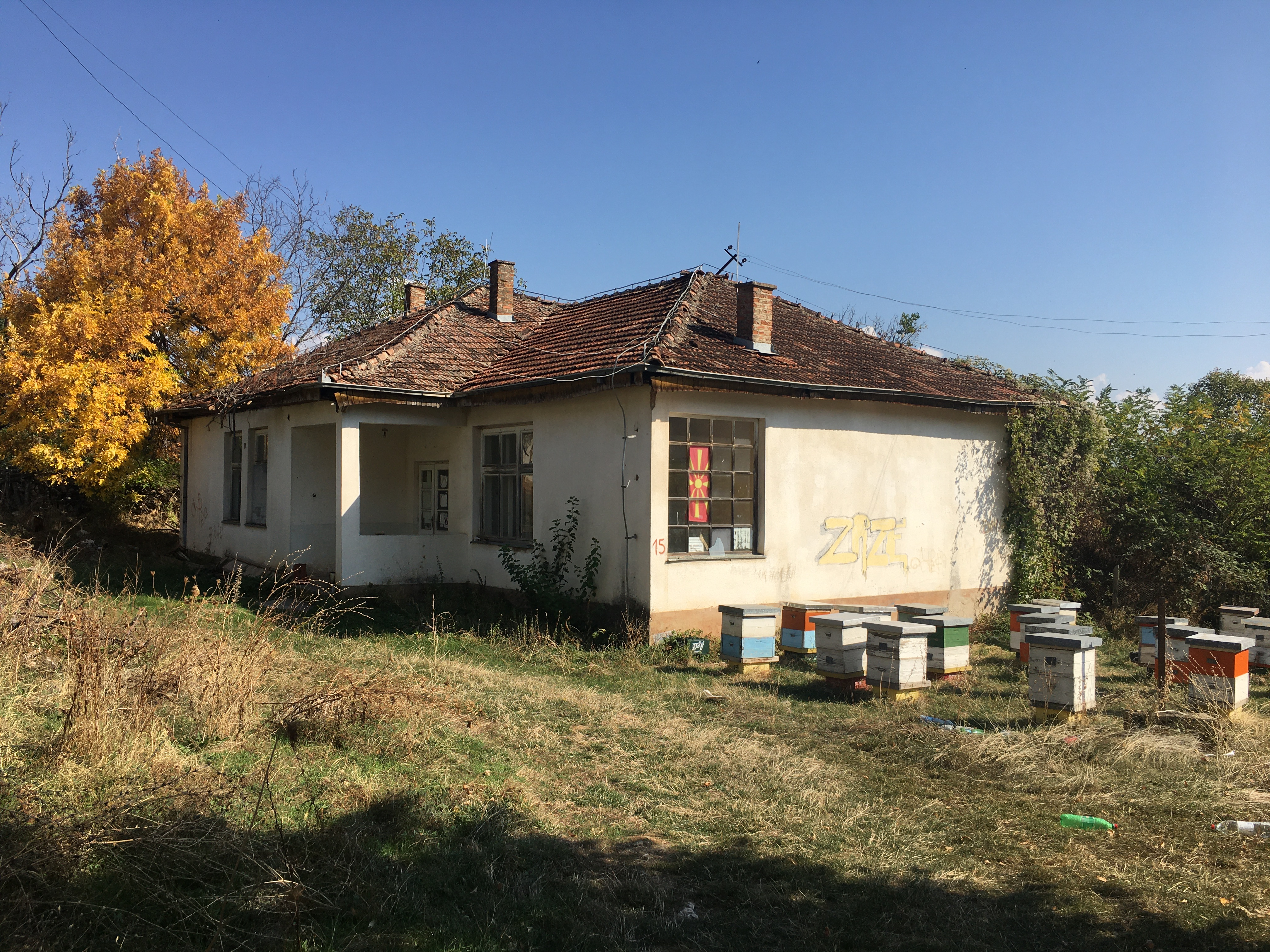 A voting booth in the village of Zrze